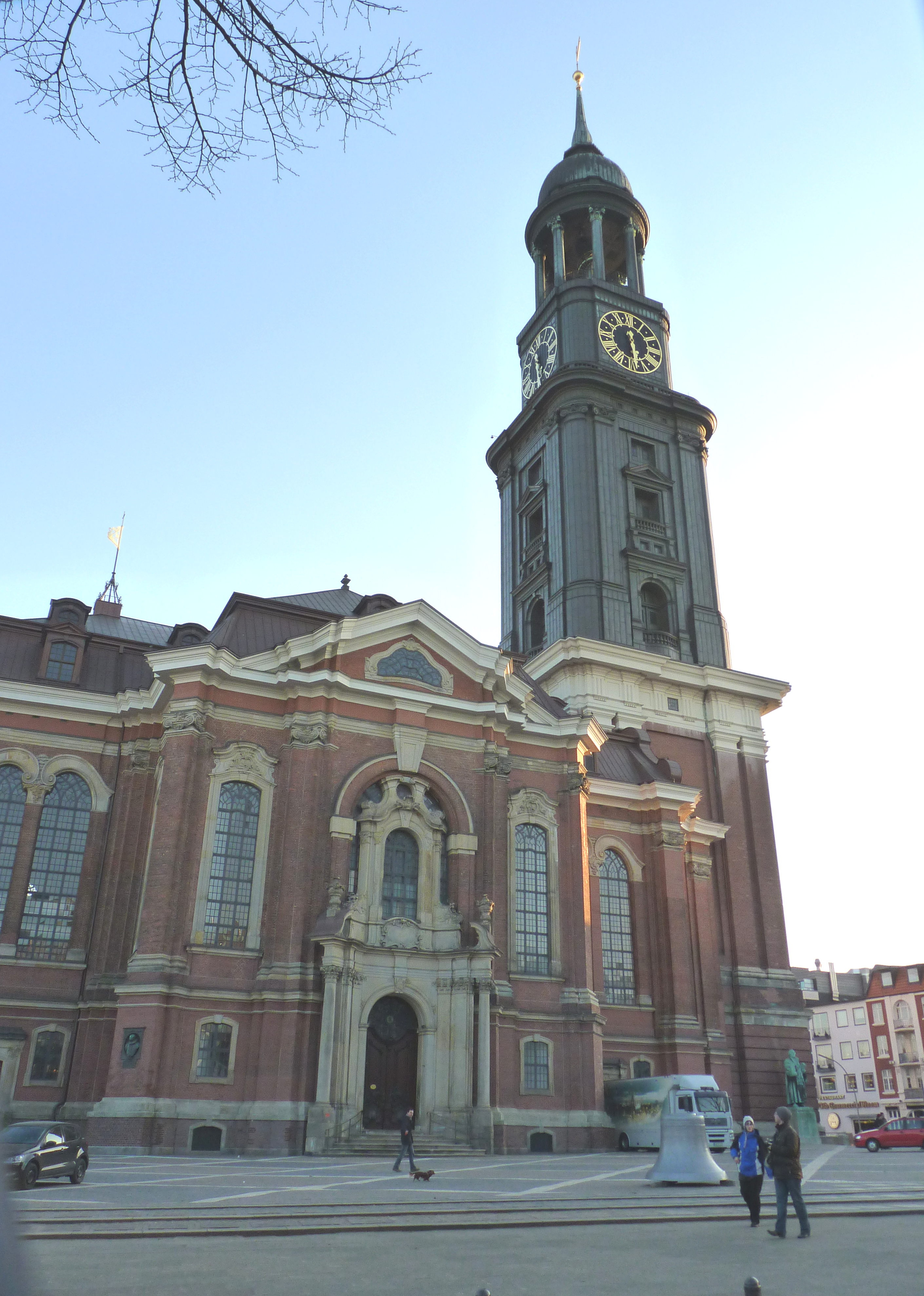 Hamburg. St. Michaelis Church